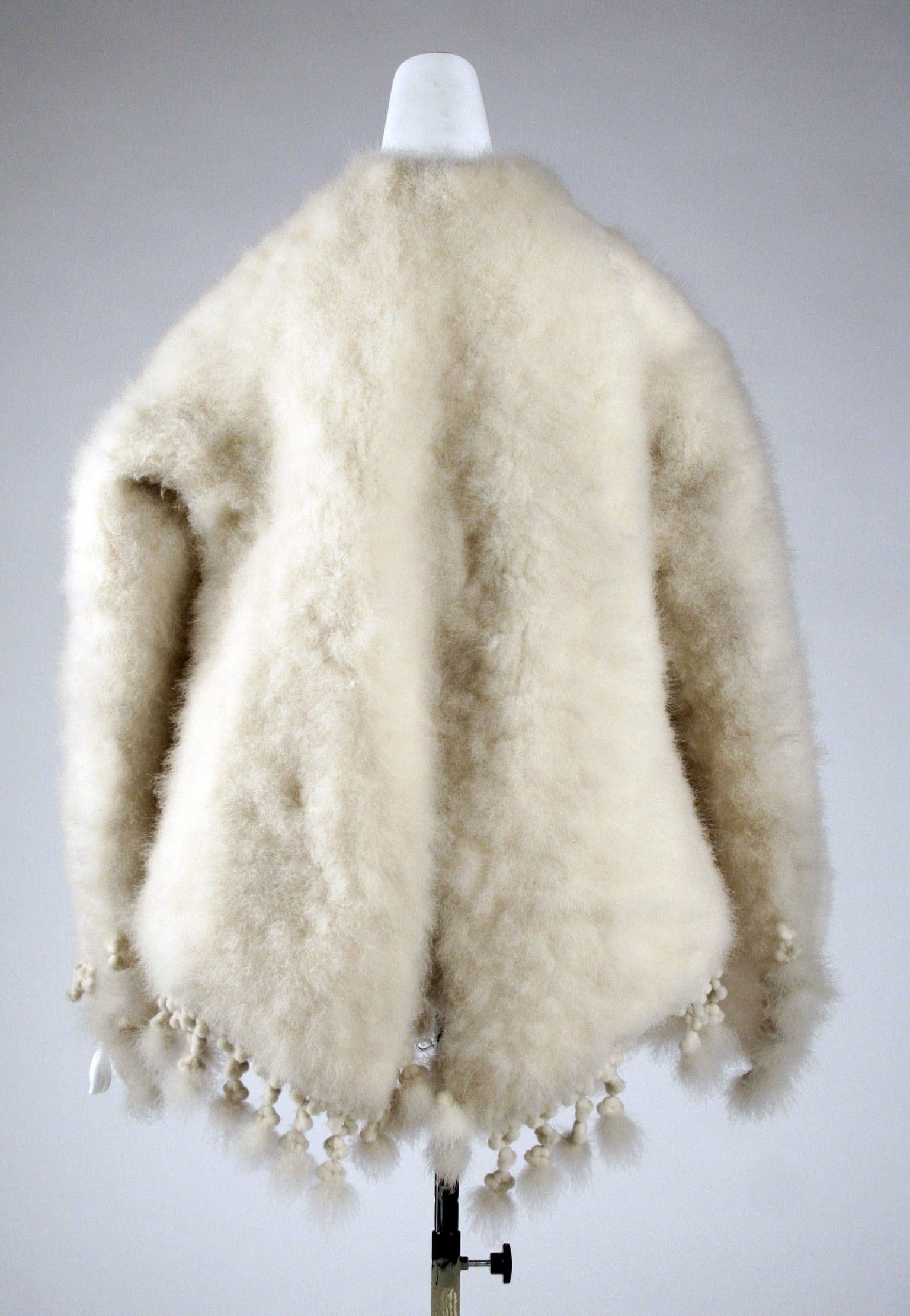 European; Jacket